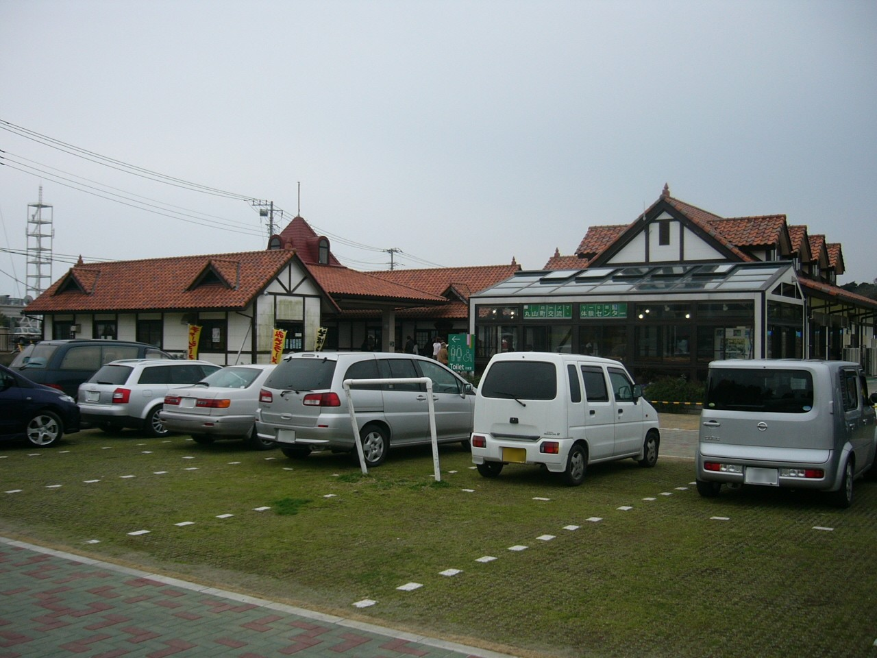 Michinoeki Rosemary Park Maruyama Town (道の駅ローズマリー公園 Chiba)